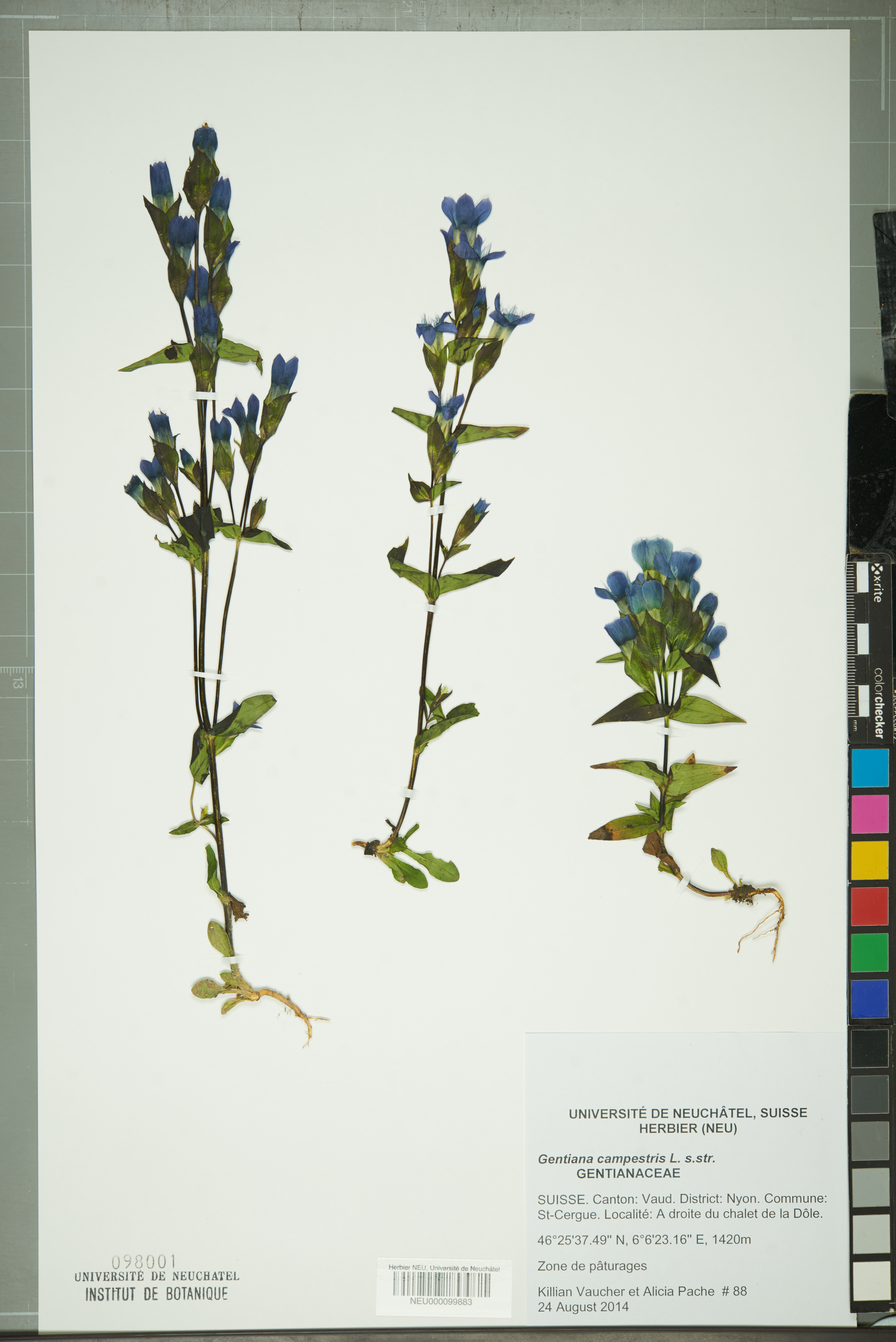 Dried pressed specimen of Gentiana campestris